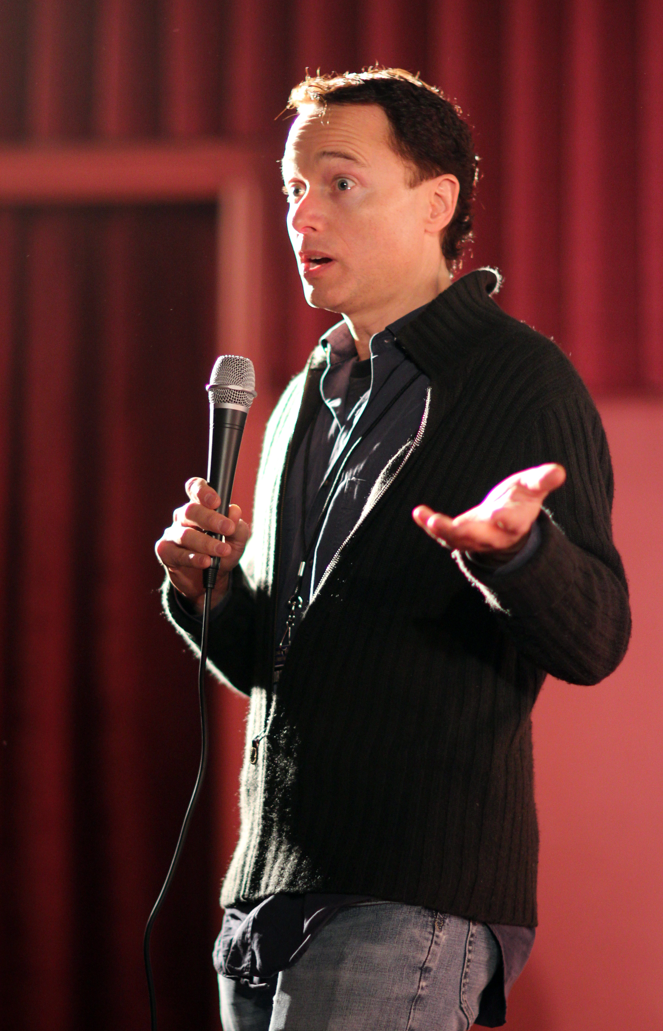 Roger Nygard speaking